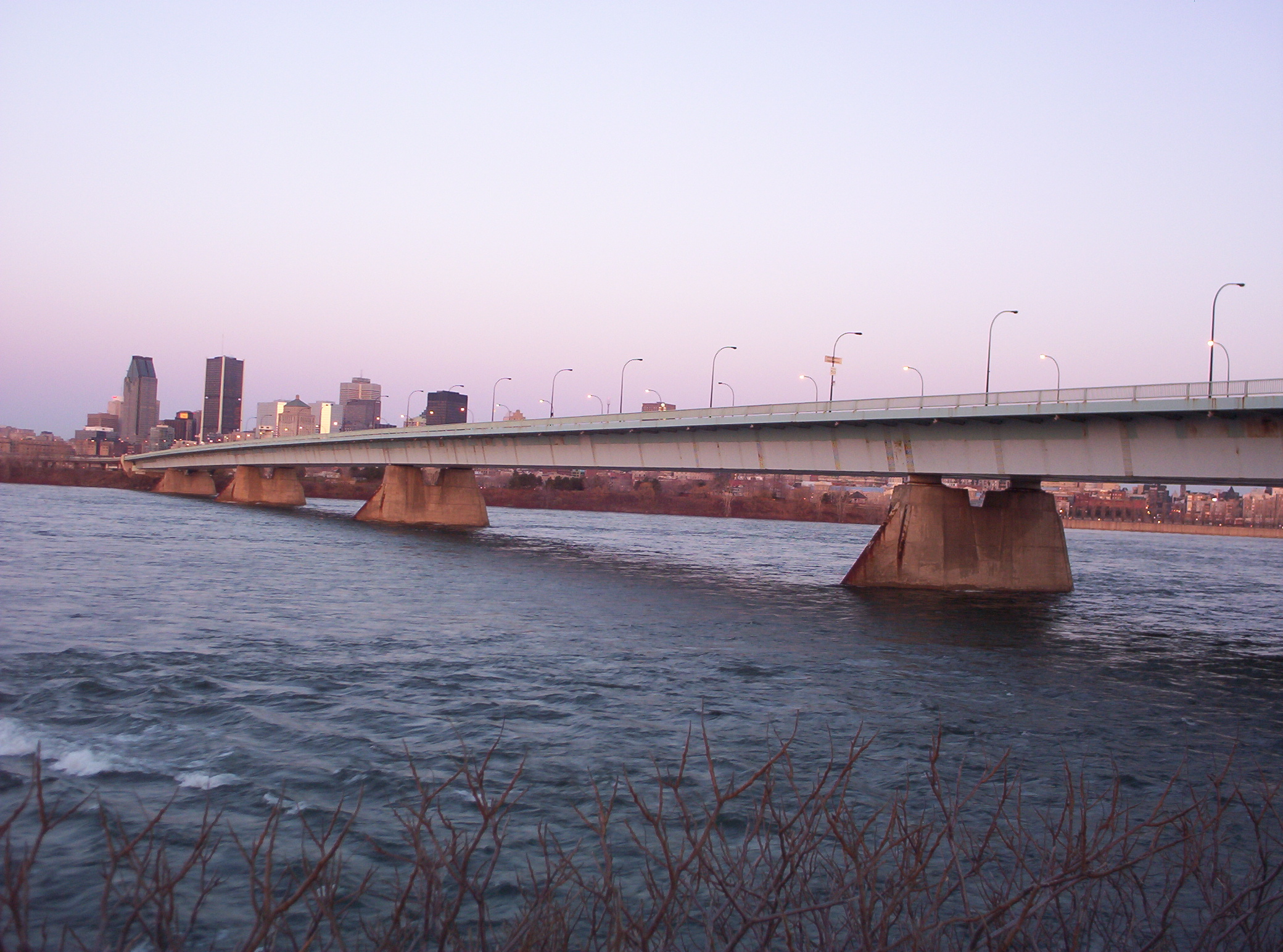 View on Concorde bridge in Montreal, Quebec, running across the Saint-Lawrence River, from the tip of the peninsula Cité du Havre to Saint-Helen Island.